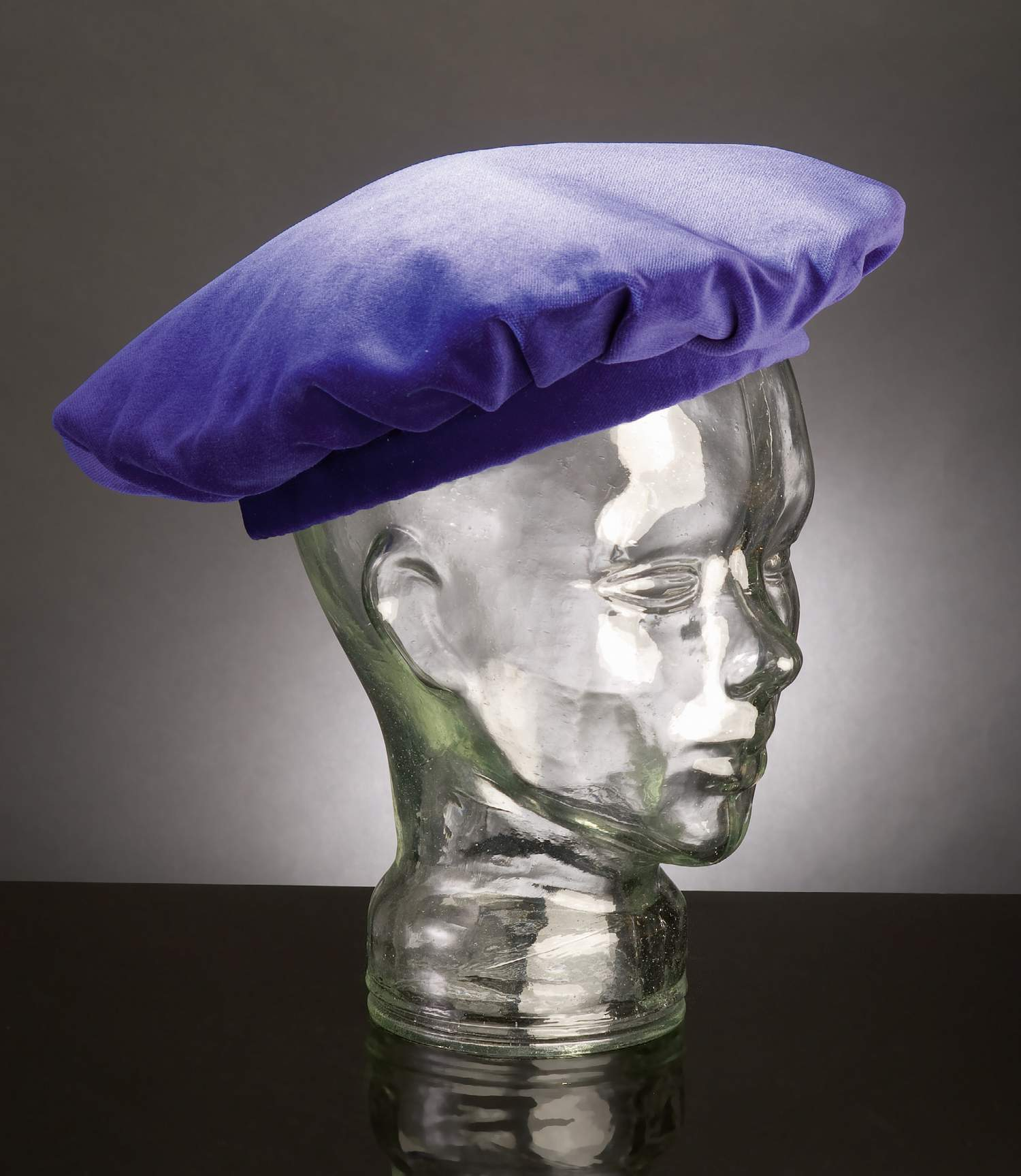 Barett